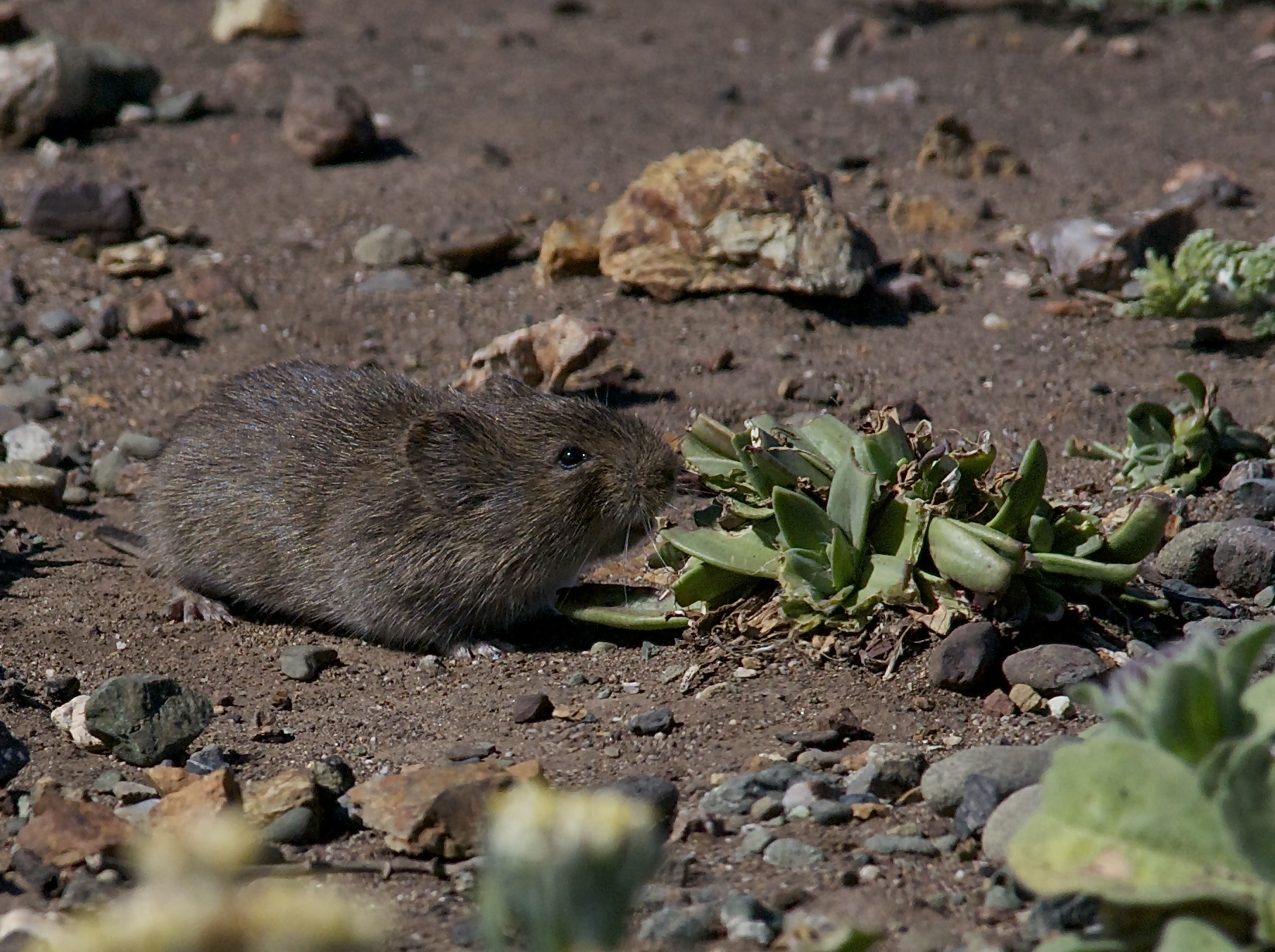 This vole was seen at the Piedras Blancas Lighthouse while I was looking for various birds flying by.